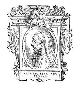 Illustratio from "Le Vite" by Giorgio Vasari, edition of 1568. For the artist portrayed see filename